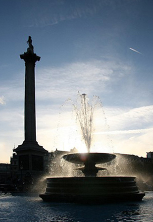 Taken by Nick Fraser in 2005. Trafalgar Square, London.